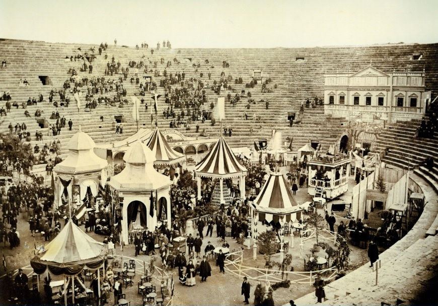 Wine fair in Verona in 1876 - Italy